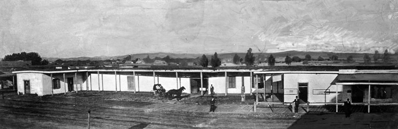 Panoramic view of Abel Stearns adobe known as "El Palacio", located on the southeast corner of Main and Arcadia streets; four men stand scattered in the area, and two others sit in a horse-drawn carriage. Stearns purchased the land from Francisco O'Campo and built his adobe, gradually expanding the home over the years until it took on the proportions of a mansion - which the natives gave the name of "El Palacio de Don Abel", or simply "El Palacio". Photograph dated: 1857. Historical Notes: "La Mansion de Don Abel" or "El Palacio de Don Abel", was the home of Don Abel Sterns and his bride Donña Arcadia Bandini, which stood on the present site of the Baker Block, located on the southeast corner of Arcadia and Main Streets. Stearns purchased the land from Francisco O'Campo and built a three-room adobe with an attached kitchen. He gradually expanded the adobe from 1835-1838, and the home eventually became U-shaped with a wide-open cobblestone court, and contained a grand ballroom at least 100 feet long. At the time, it was the largest and most magnificent house in the pueblo, which the natives gave the name of "El Palacio de Don Abel", or simply "El Palacio". It became the site of the Baker Block in 1878.